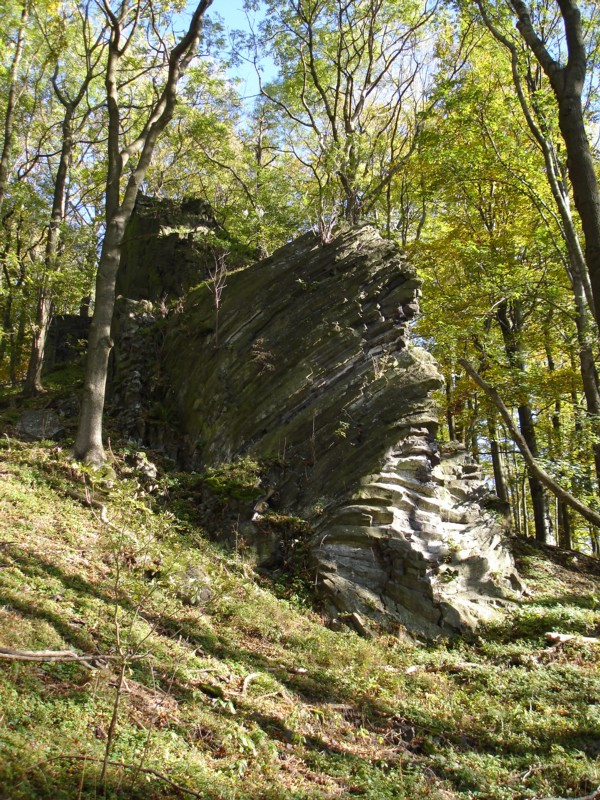 mountain Slavíček, Czech Republic